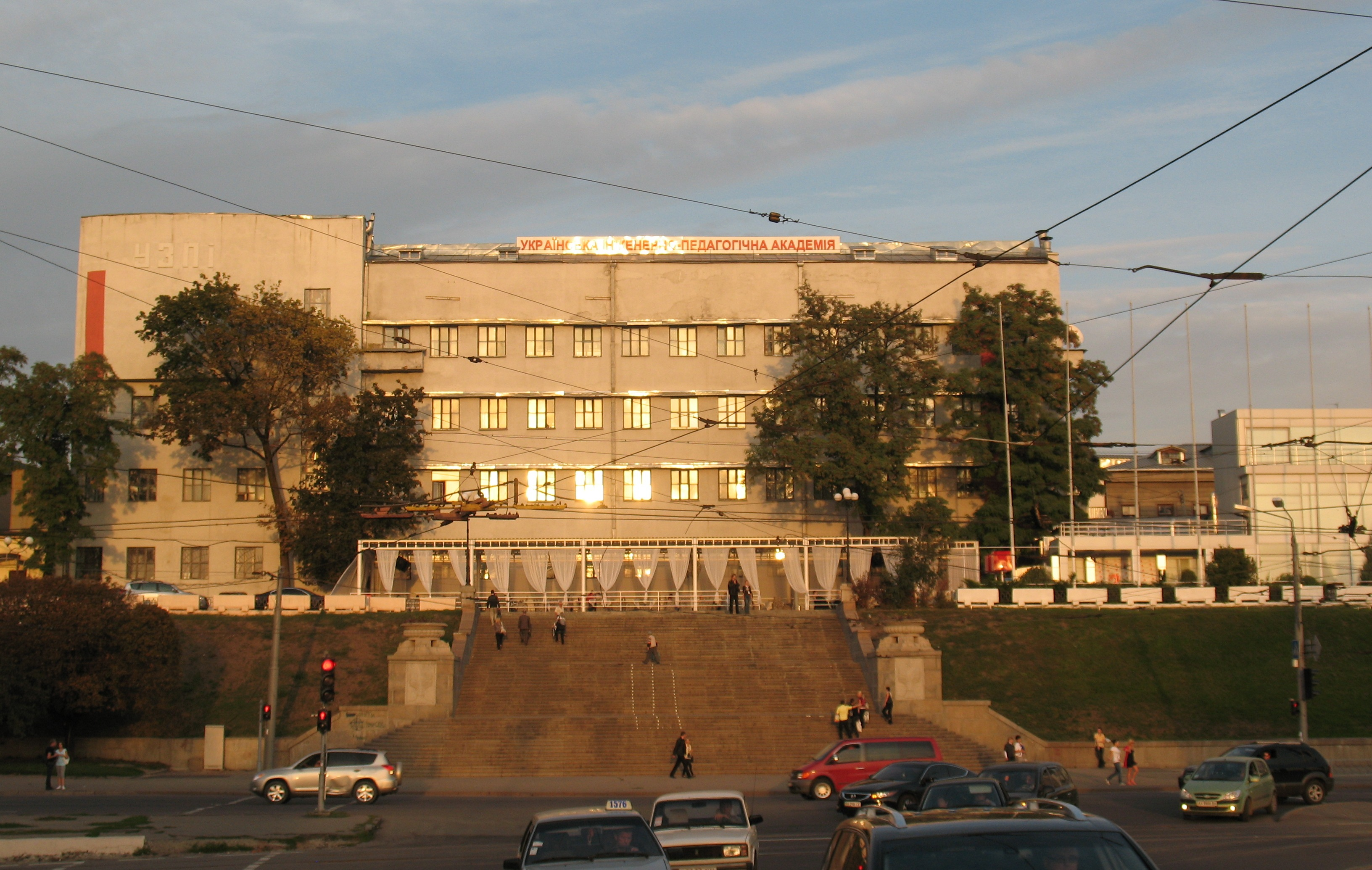 Kharkov City. Univer Hill. Sunset